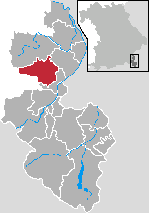 Locator maps of municipalities in Bavaria - District Berchtesgadener Land